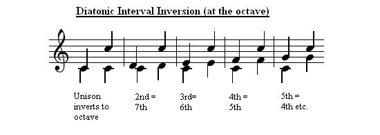 Inversion of diatonic intervals at the octave. Created in lilypond and released into public domain by author.